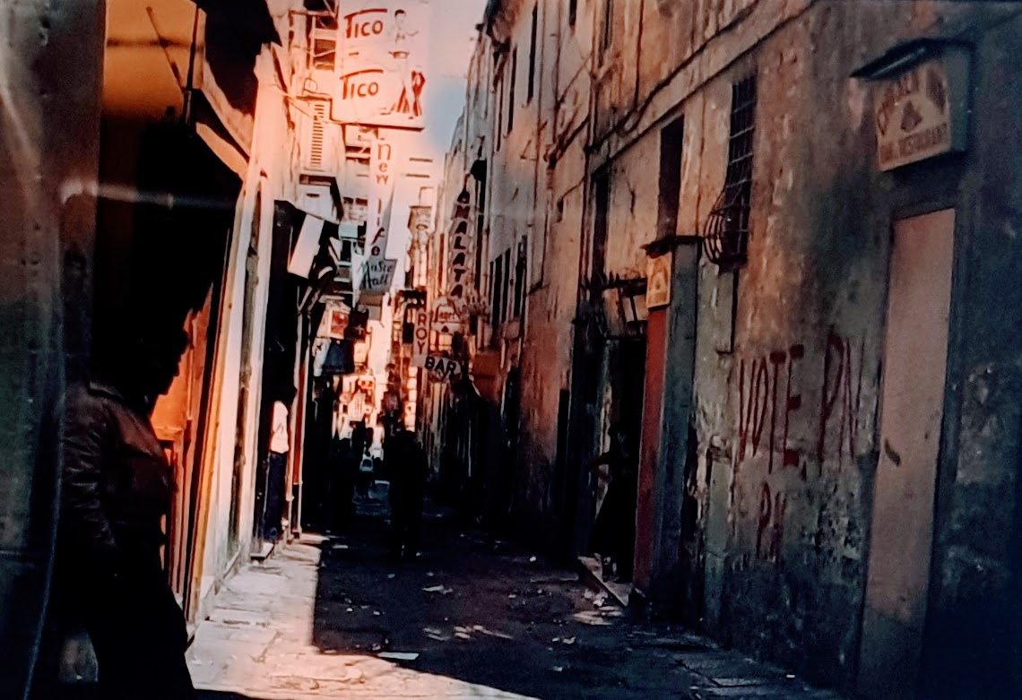 Strait street, Valletta, 1980 - from a box of slides captioned "Verstraeten Family in Malta in 1980" found at a flea market in Brussels Vossenplein in 2020